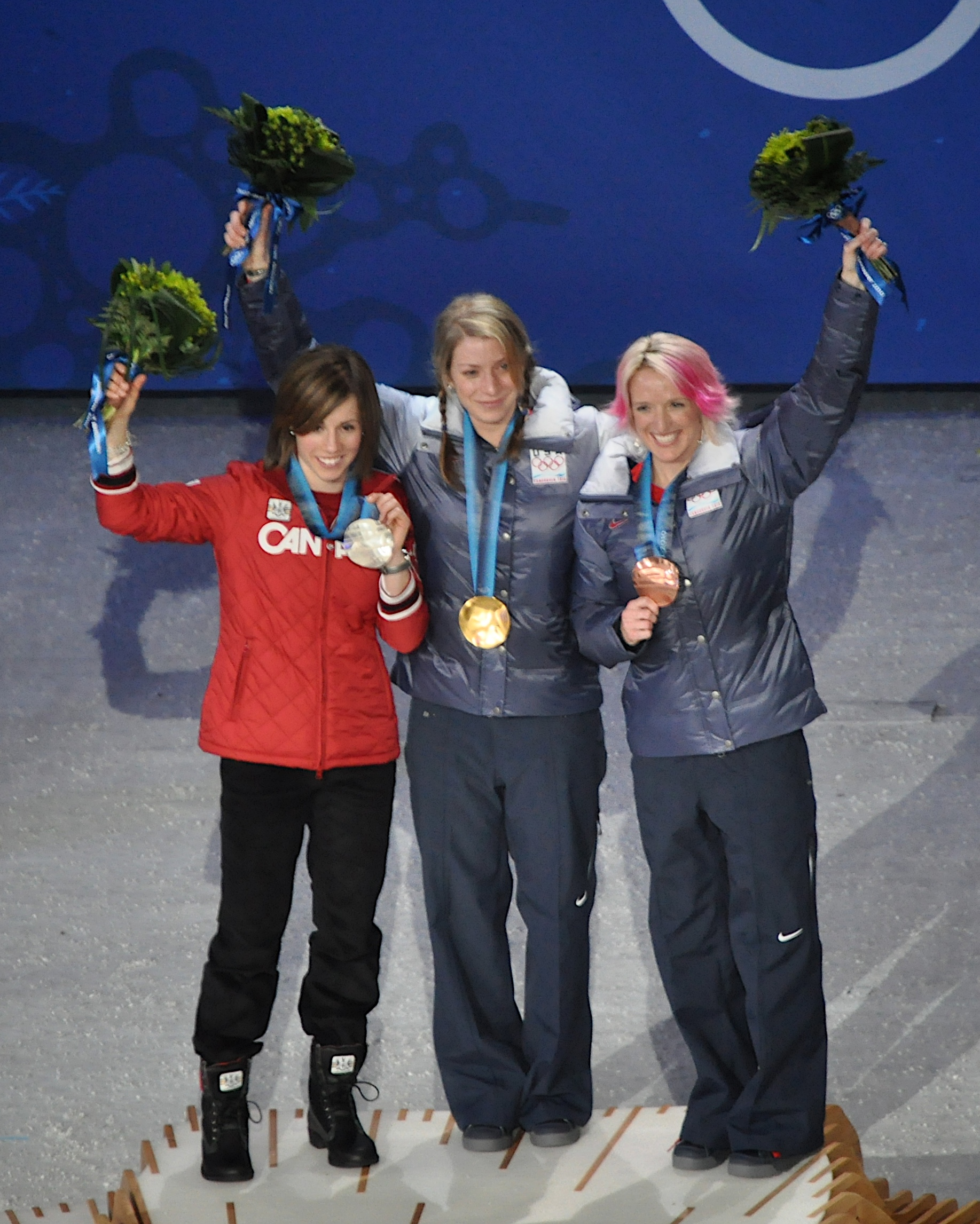 Jennifer Heil (CAN), Hannah Kearney (USA), Shannon Bahrke (USA), Silver, Gold, and Bronze Medalists (LtoR), Women's Moguls - Victory Ceremony, BC Place, Vancouver